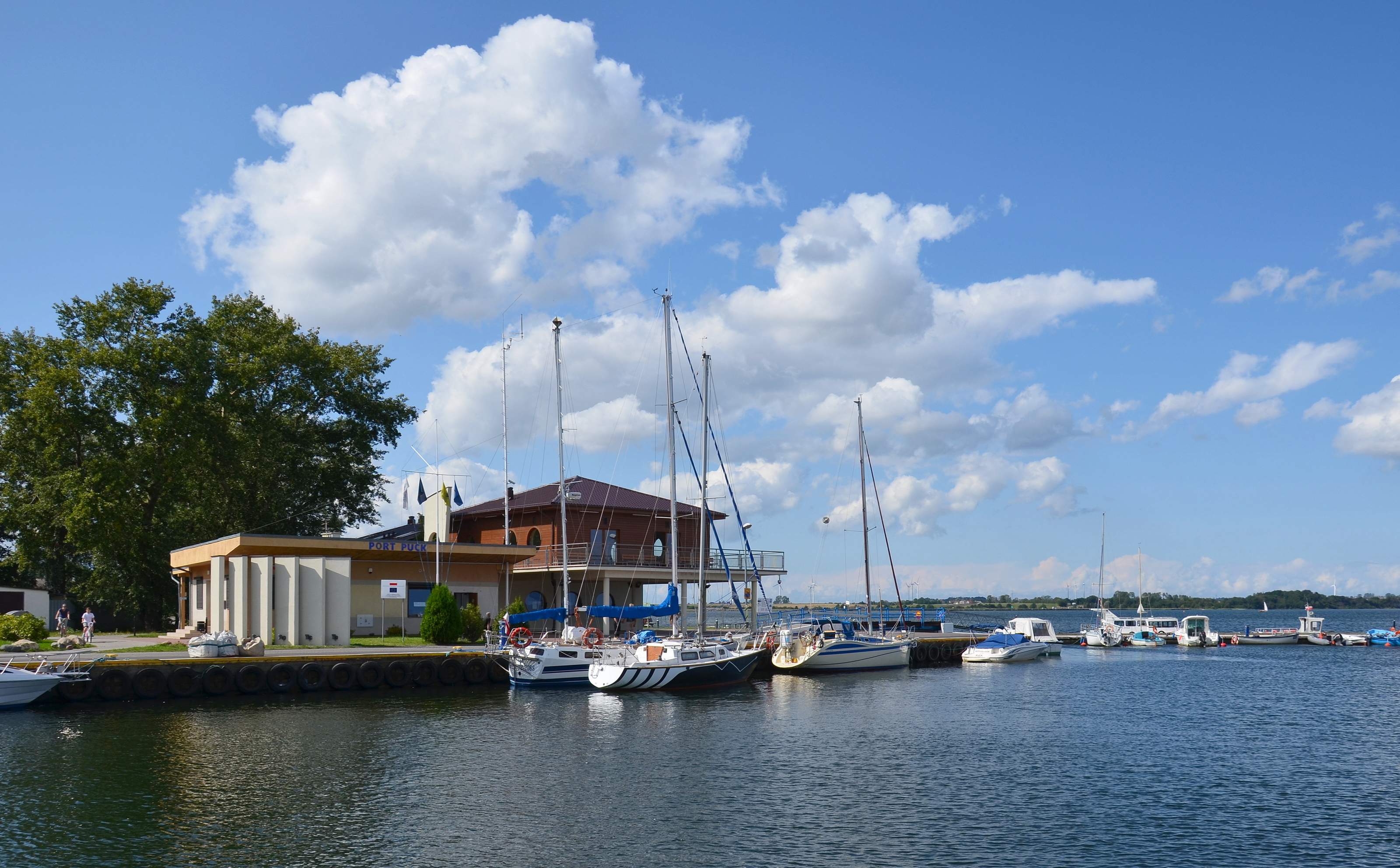 Seaport Puck